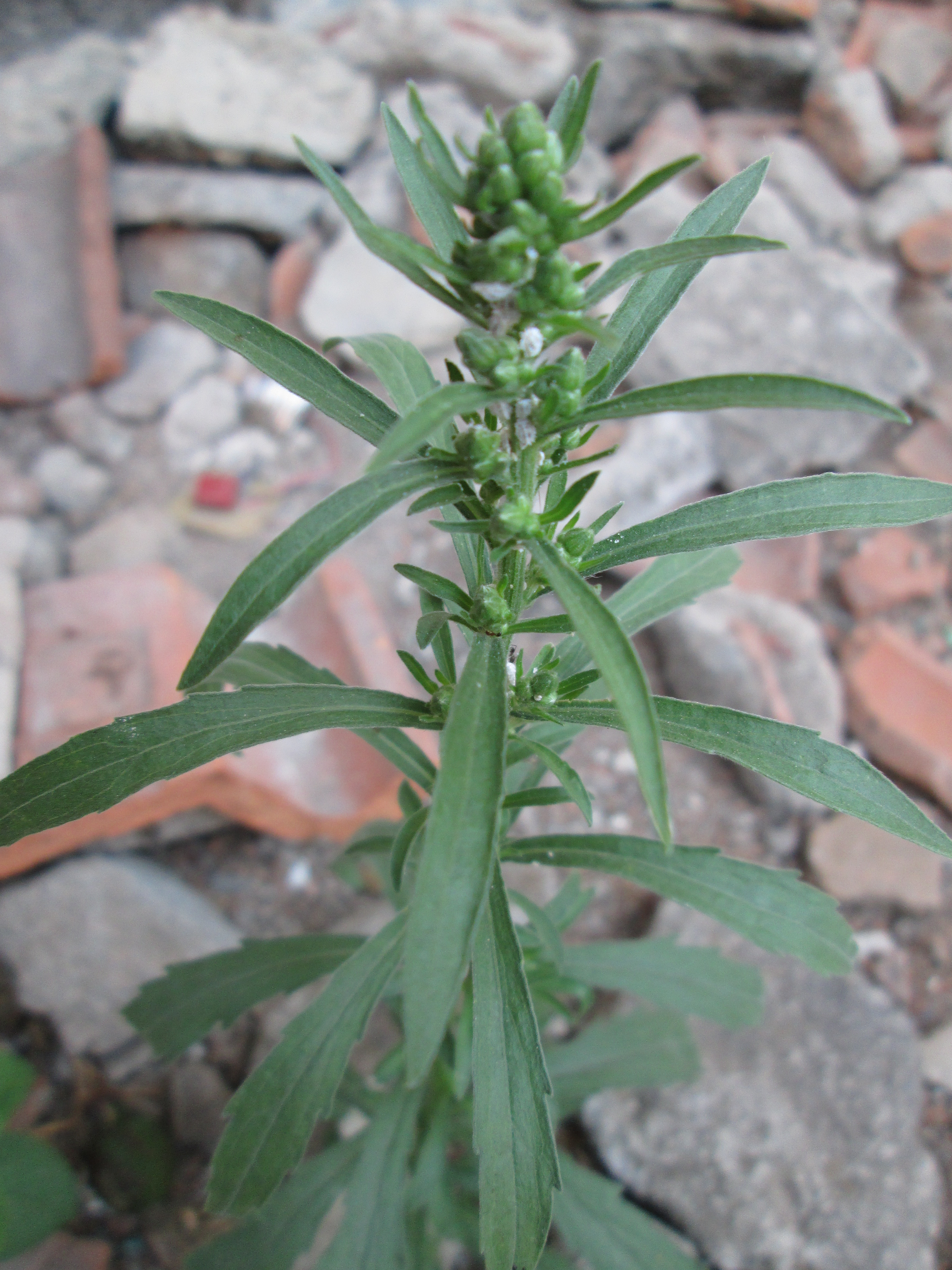 conyza sumatrensis